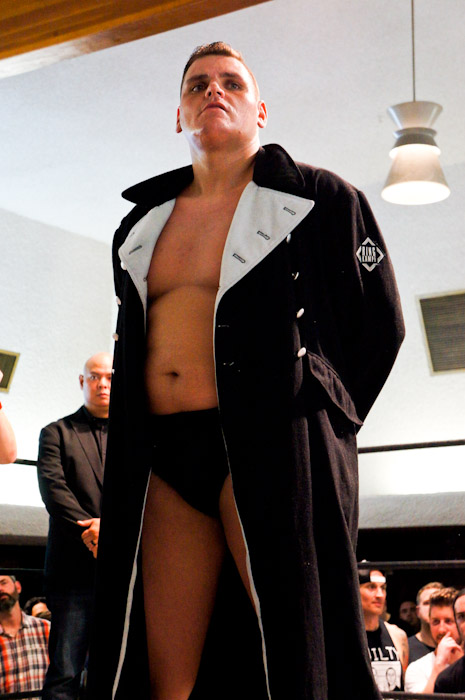 WALTER at his debut for Pro Wrestling Guerilla at the 2017 Battle of Los Angeles.